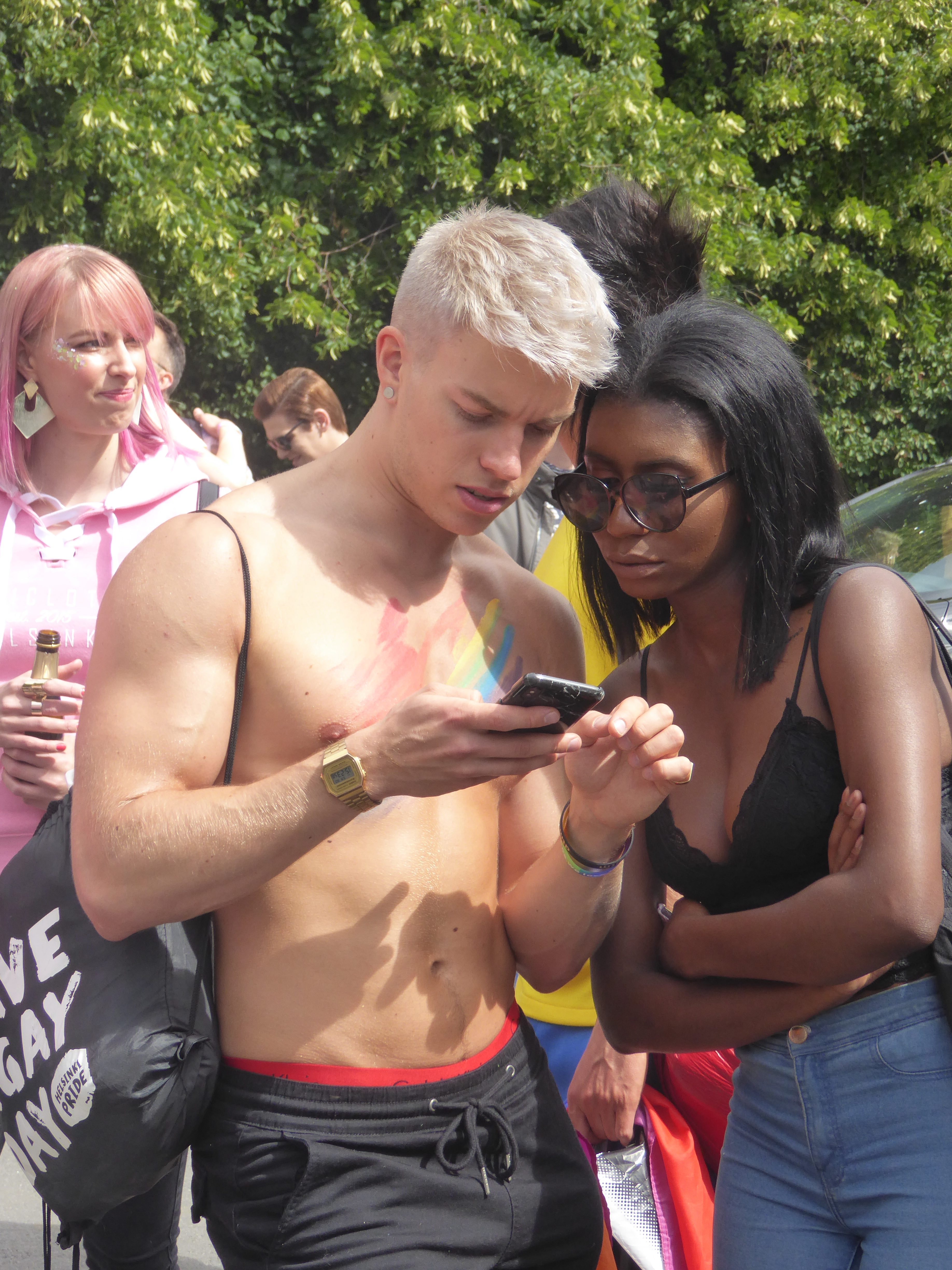 Helsinki Pride 2018